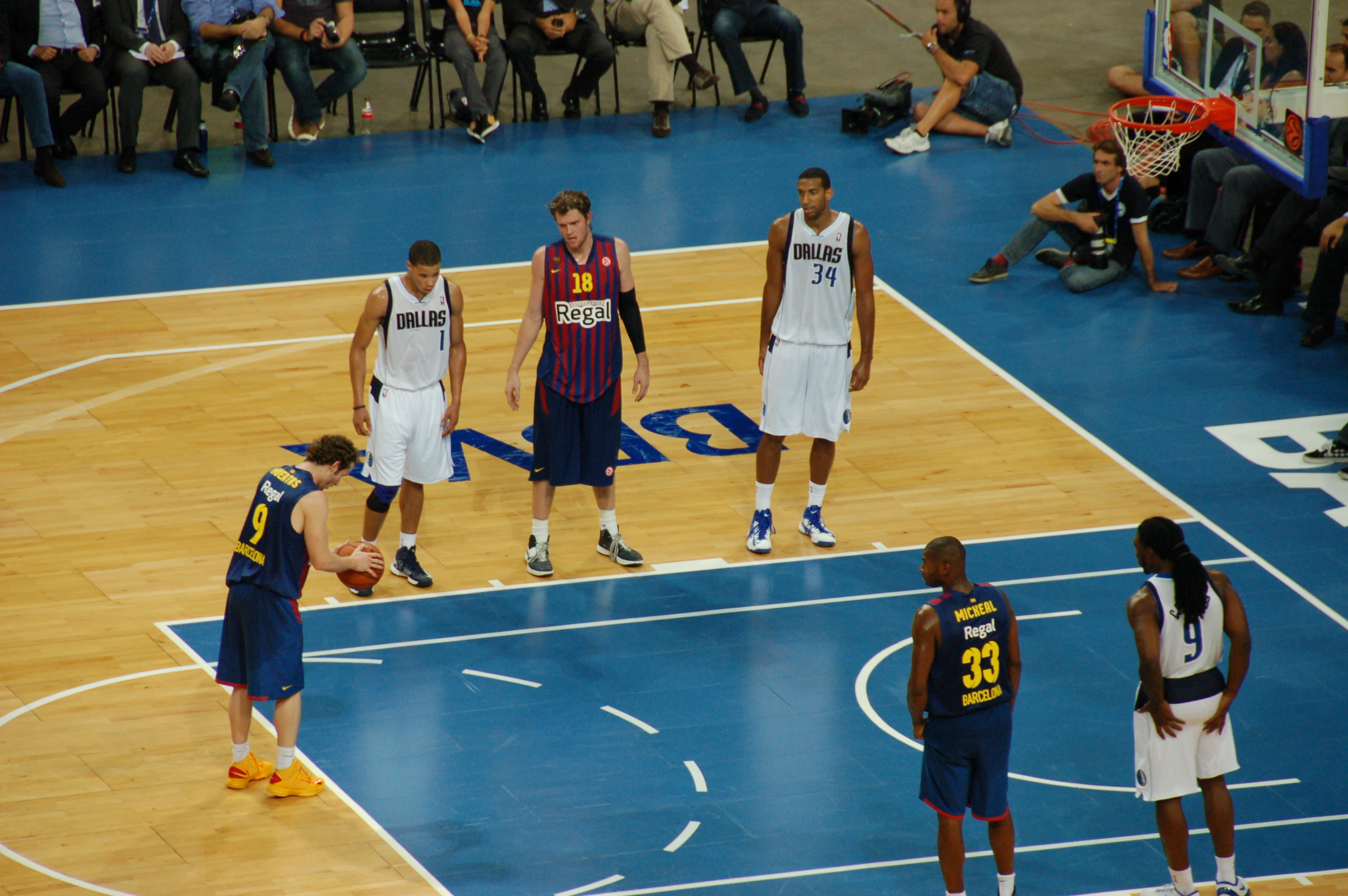 Marcelinho Huertas, Barca's starting PG